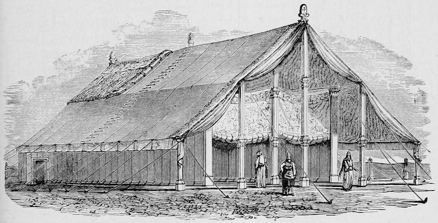 South-East view of the Tabernacle.